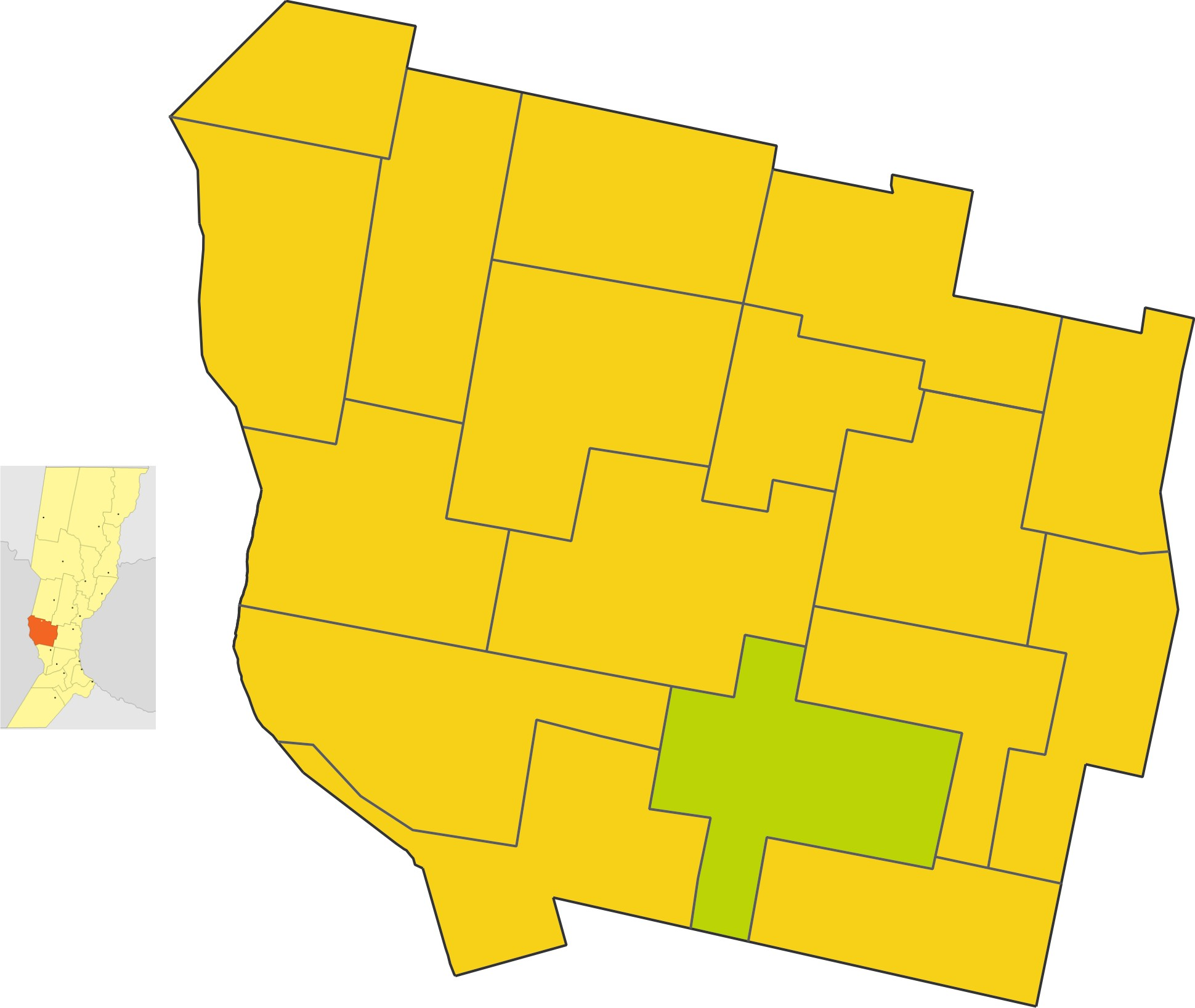 Map of the municipio de El Trebol in San Martin department, Santa Fe province, Argentina